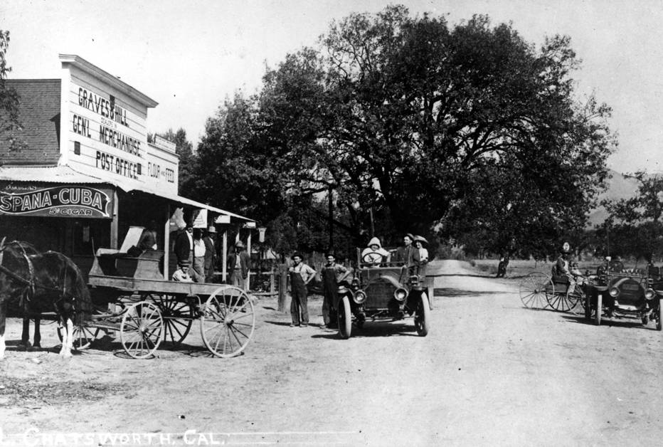 Graves & Hill General Store, circa 1911 Graves & Hill General Store. Lowell Hill, perhaps a part owner, is standing in front of the store. The store was located on the northwest side of the street at the intersection of Lassen Street and Topanga Canyon Boulevard. 10 x 8 in. black and white photograph. Chatsworth, Los Angeles, California.